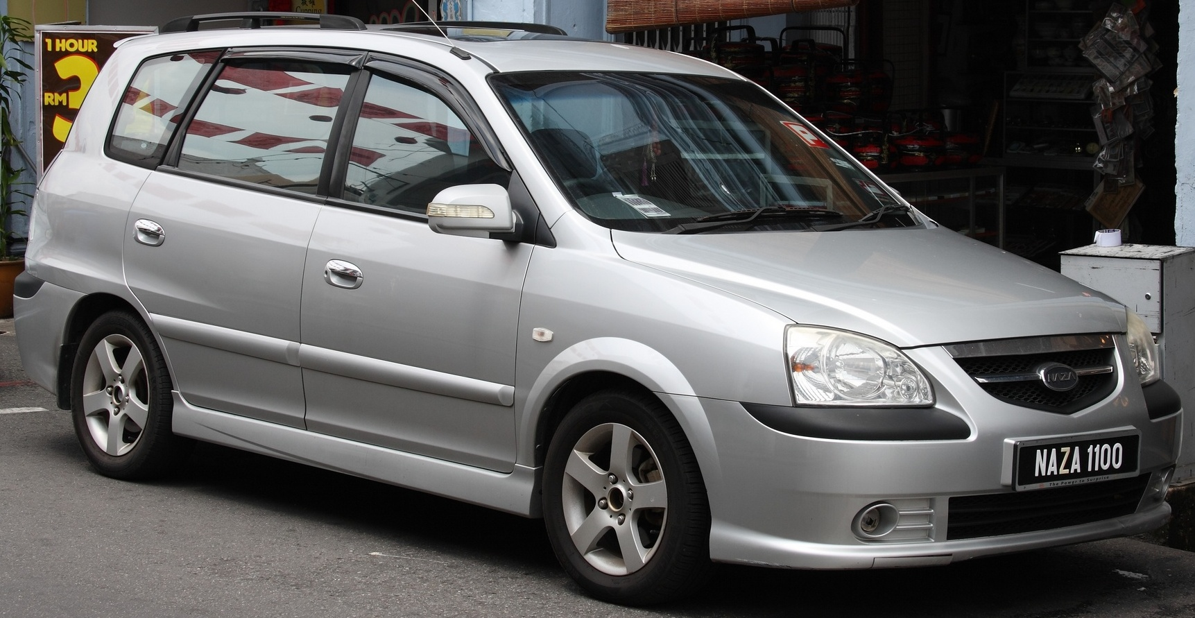 Naza Citra in Malacca, Malaysia